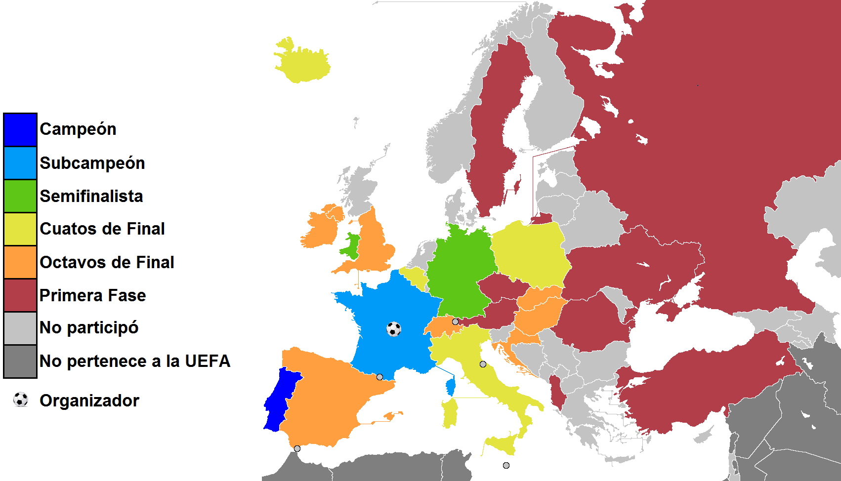 Results of UEFA EURO 2016